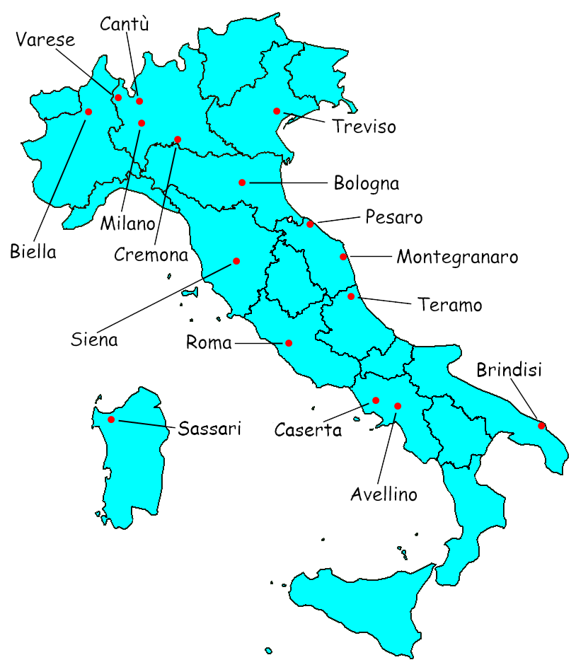 Geographic position of teams participating to the Italian Male "Serie A FIP 2010-2011"